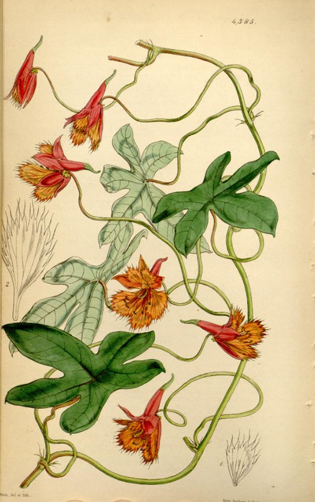 Illustration of Tropaeolum smithii